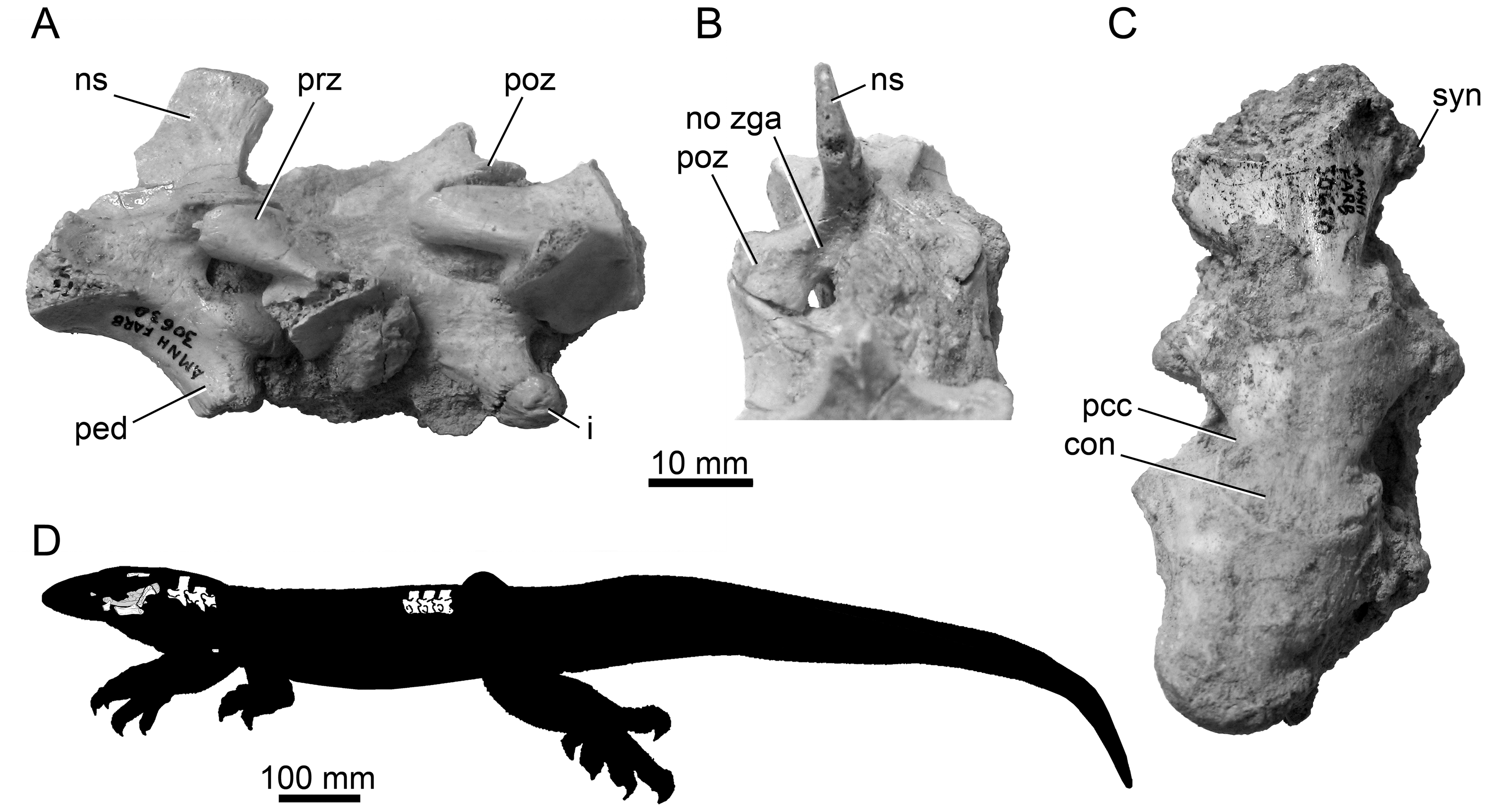 Holotype (AMNH FR 30630) vertebrae for Varanus (Varaneades) amnhophilis nov. taxon. (A) Cervical vertebrae 3, 4, and part of 5 in left lateral view. (B) Cervical vertebrae 3 and 4 in posterodorsal view showing the absence of zygosphenes/zygantra and/or pseudozygosphenes/pseudozygantra. (C) Three posterior dorsal vertebrae in ventral view. (D) Reconstruction of AMNH FR 30630 in left lateral view with known parts illustrated on a hypothetical black silhouette for the outline of the animal as a whole. Abbreviations: con, condyle; i, intercentrum; ns, neural spine; pcc, area of precondylar constriction; ped, hypapophyseal pedicel; poz, postzygapophysis; prz, prezygapophysis; syn, synapophysis; zga, zygantrum/pseudozygantrum.